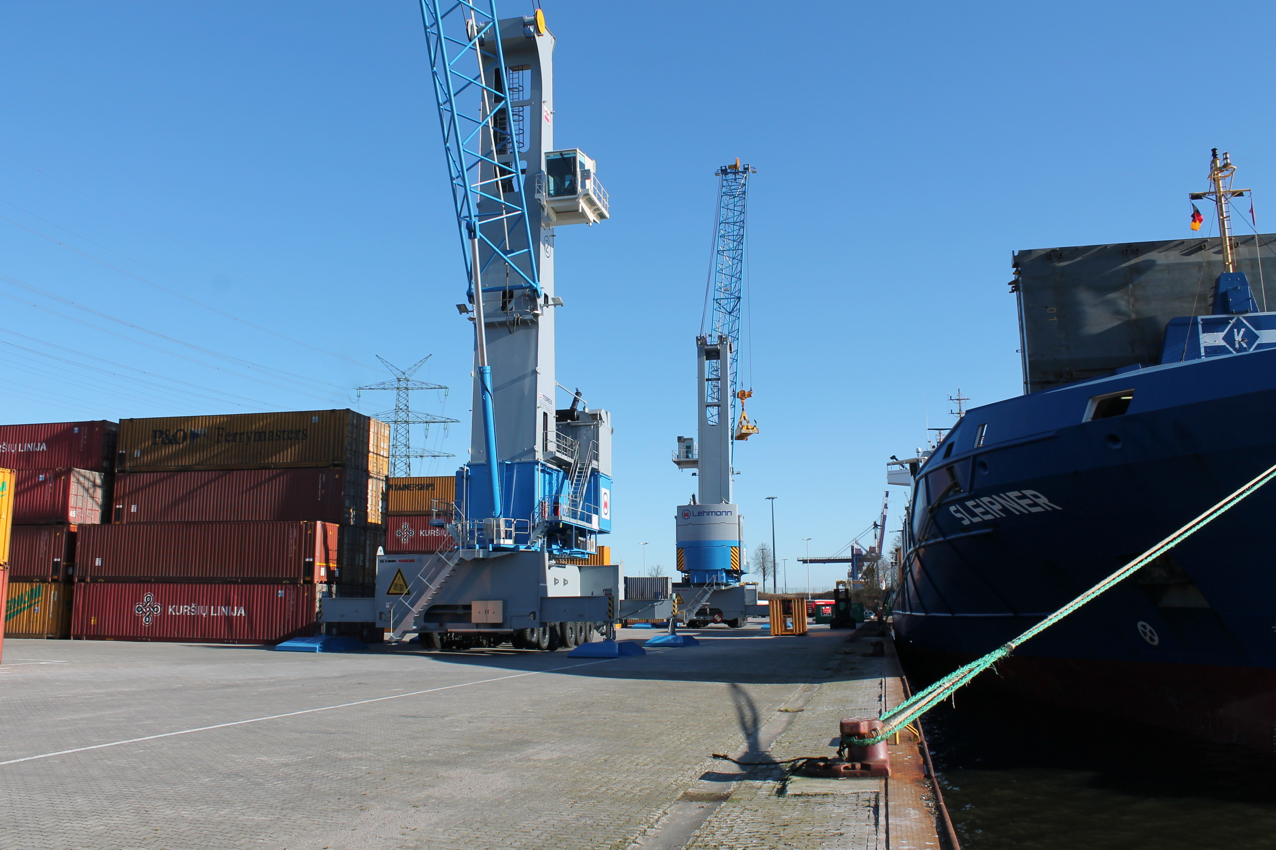 Containerumschlag am CTL